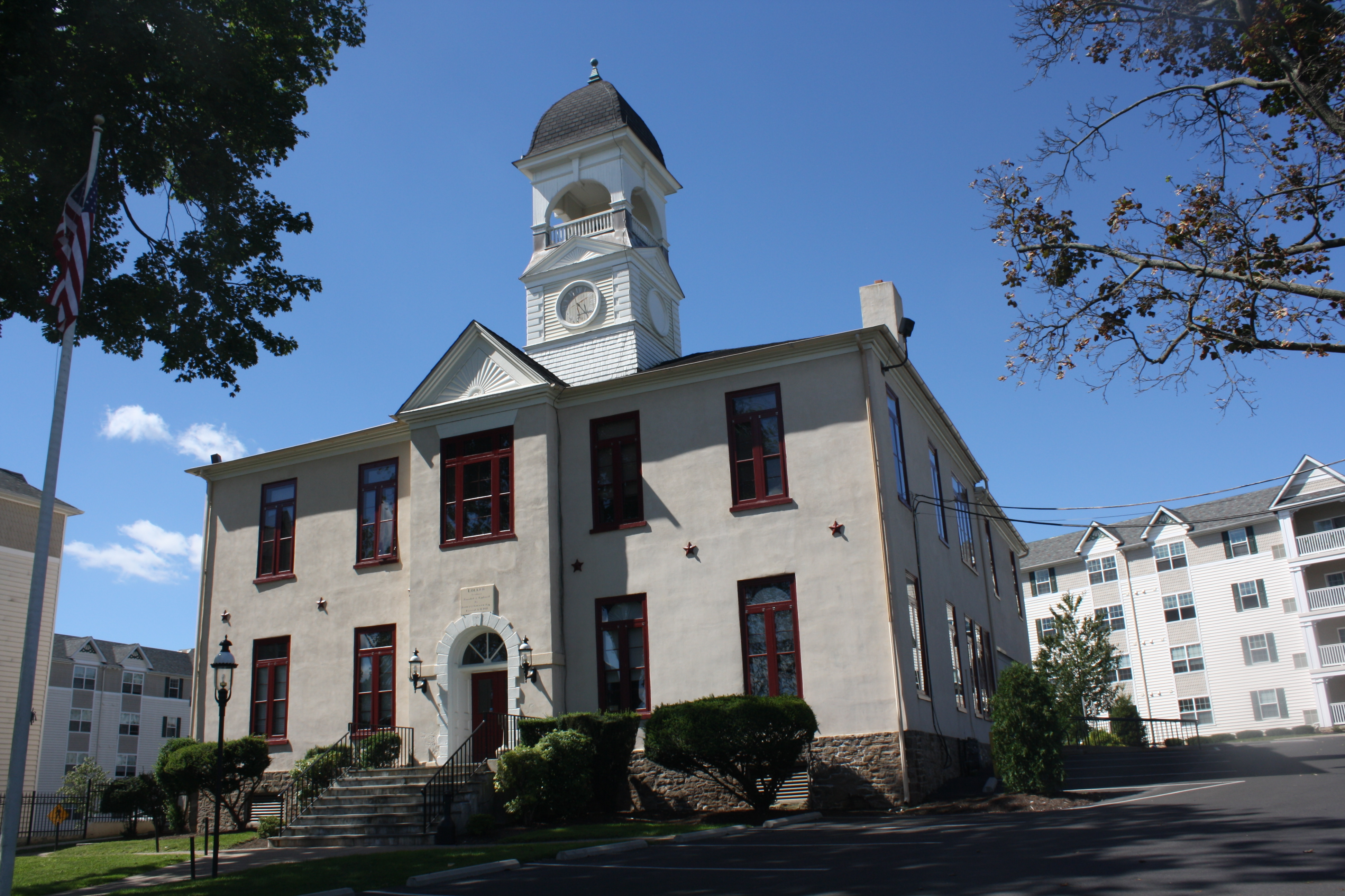 Loller Academy Loller Academy is a historic school building (1811) located at Hatboro, Montgomery County, Pennsylvania.